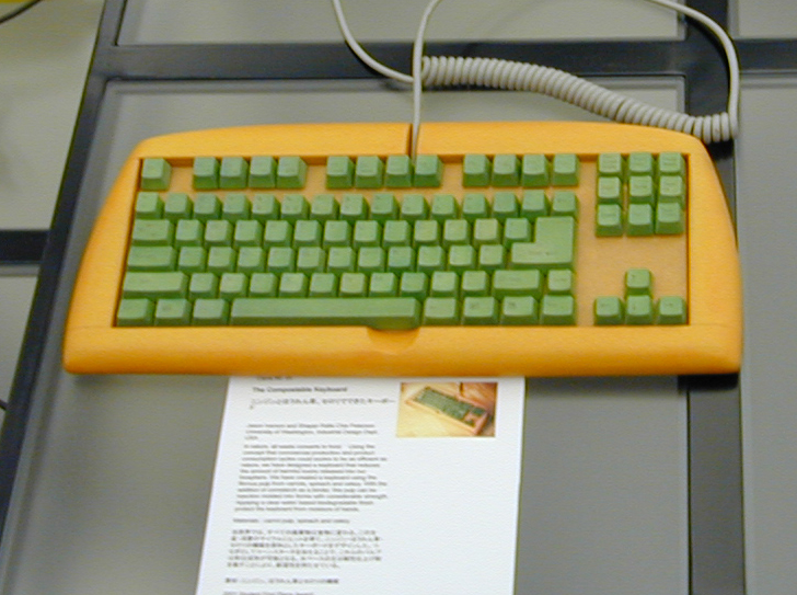 COMPOSTABLE KEYBOARD designed by Jason Iverson, Shayan Rafie. The photo is an award winning example of "Design with Memory of the nature" strategy. The goal with this strategy is to make the product self-evidently integrating with natural cycles. The keyboard keys and body are instead made from carrot and celery fibers bound with a starch based binder – 100% compostable after the electronic sheet and chord are removed.